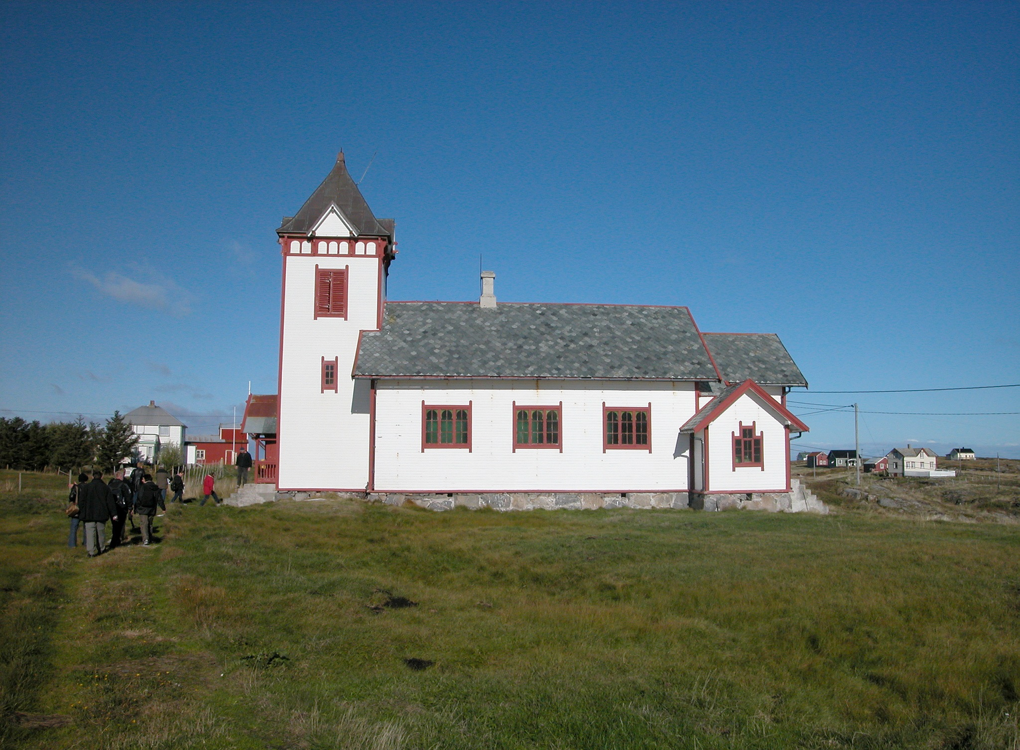 Froan kapell, fra Kulturminnebilder.no